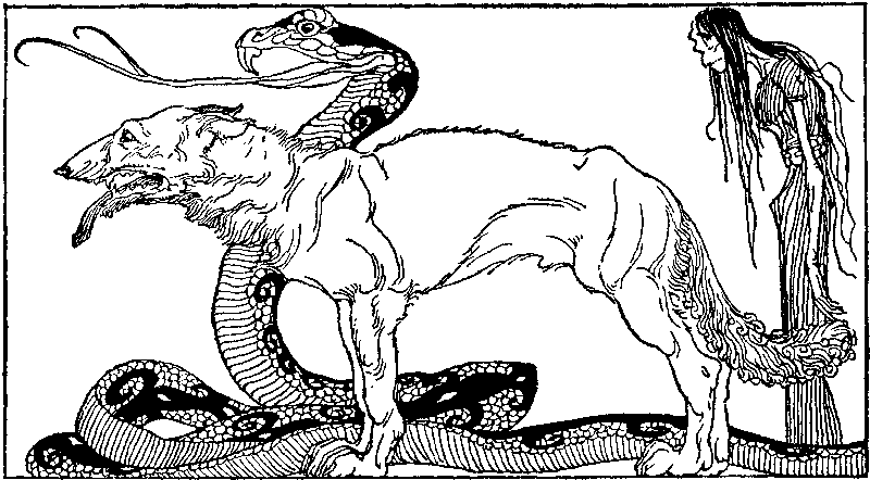 An illustration by Willy Pogany from a chapter from Children of Odin entitled "The children of Loki". No title otherwise given for the work. The three children of Loki in Norse mythology: the serpent Jörmungandr, the wolf Fenrir, and Hel.